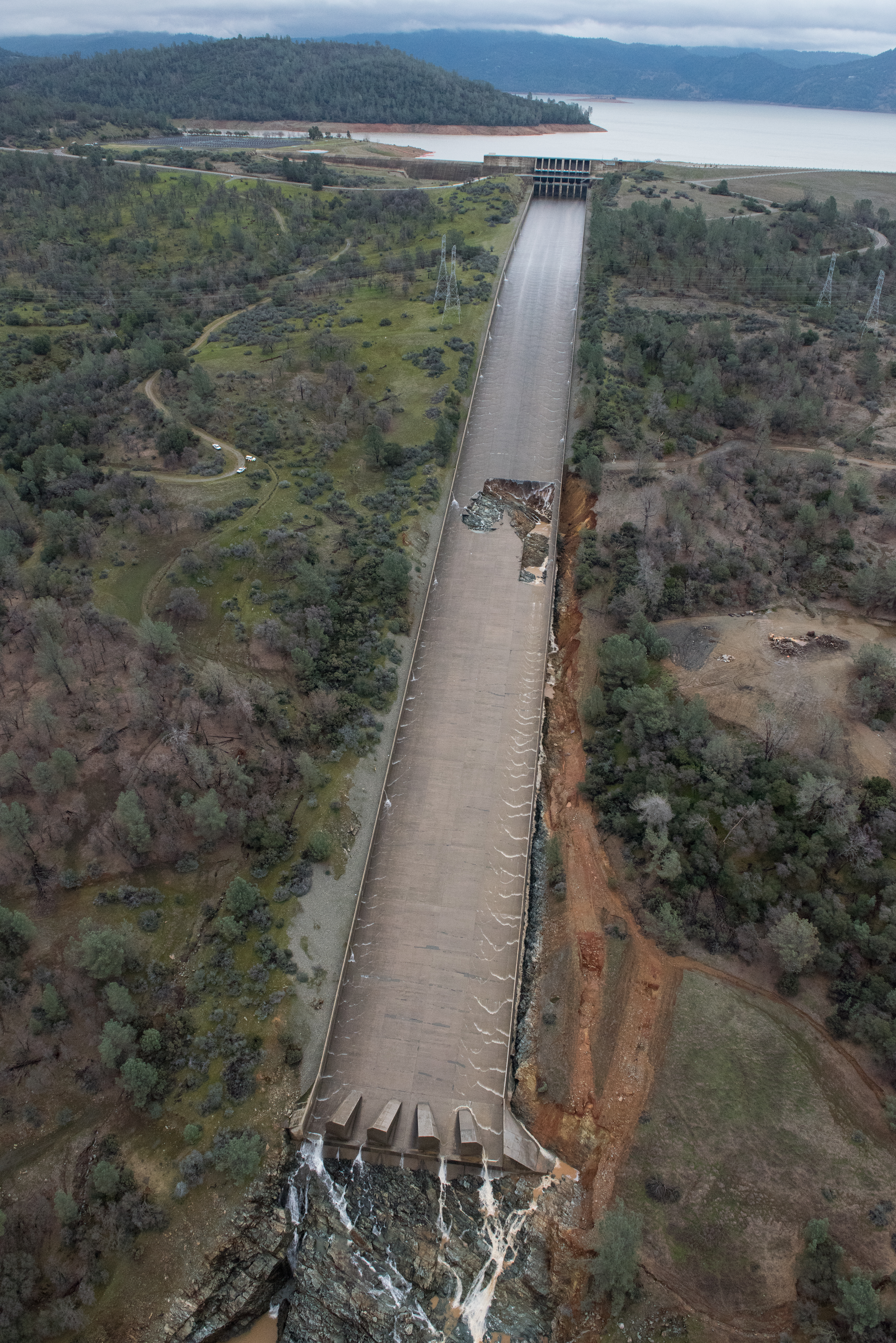 The California Department of Water Resources (DWR) has suspended flows from the Oroville Dam spillway after a concrete section eroded on the middle section of the spillway. There is no anticipated threat to the dam or the public. DWR engineers are assessing the options to repair the spillway and control the reservoir water level. The Butte County facility is the tallest dam in the United States at 770 ft (230 m) and is a key part of the State Water Project. Photo taken February 7, 2017.